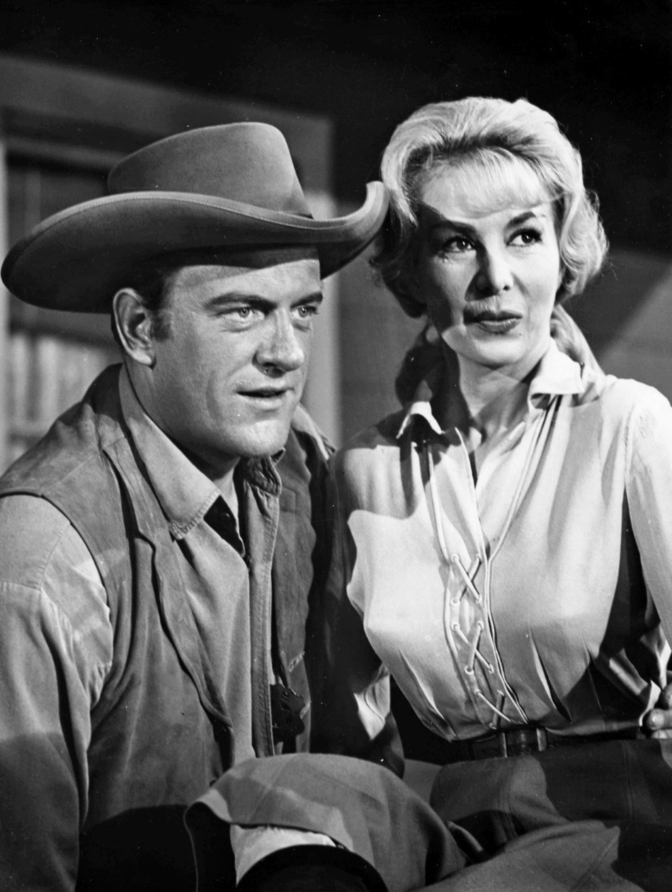 Photo of James Arness as Matt Dillon and guest star Susan Cummings in Gunsmoke.